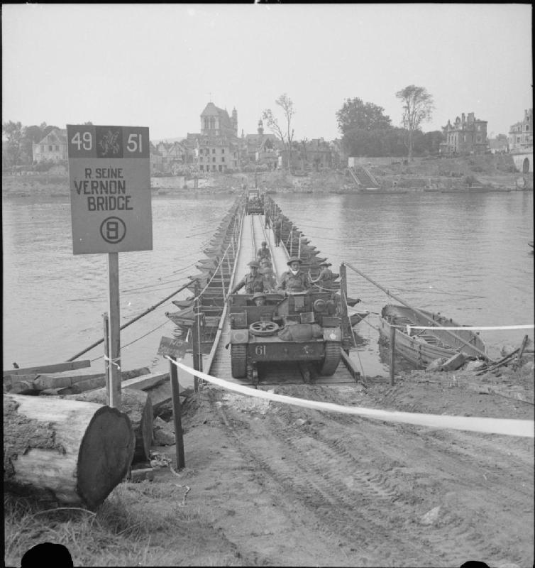 The British Army in North-west Europe 1944-45 A universal carrier crosses the River Seine at Vernon, 27 August 1944.